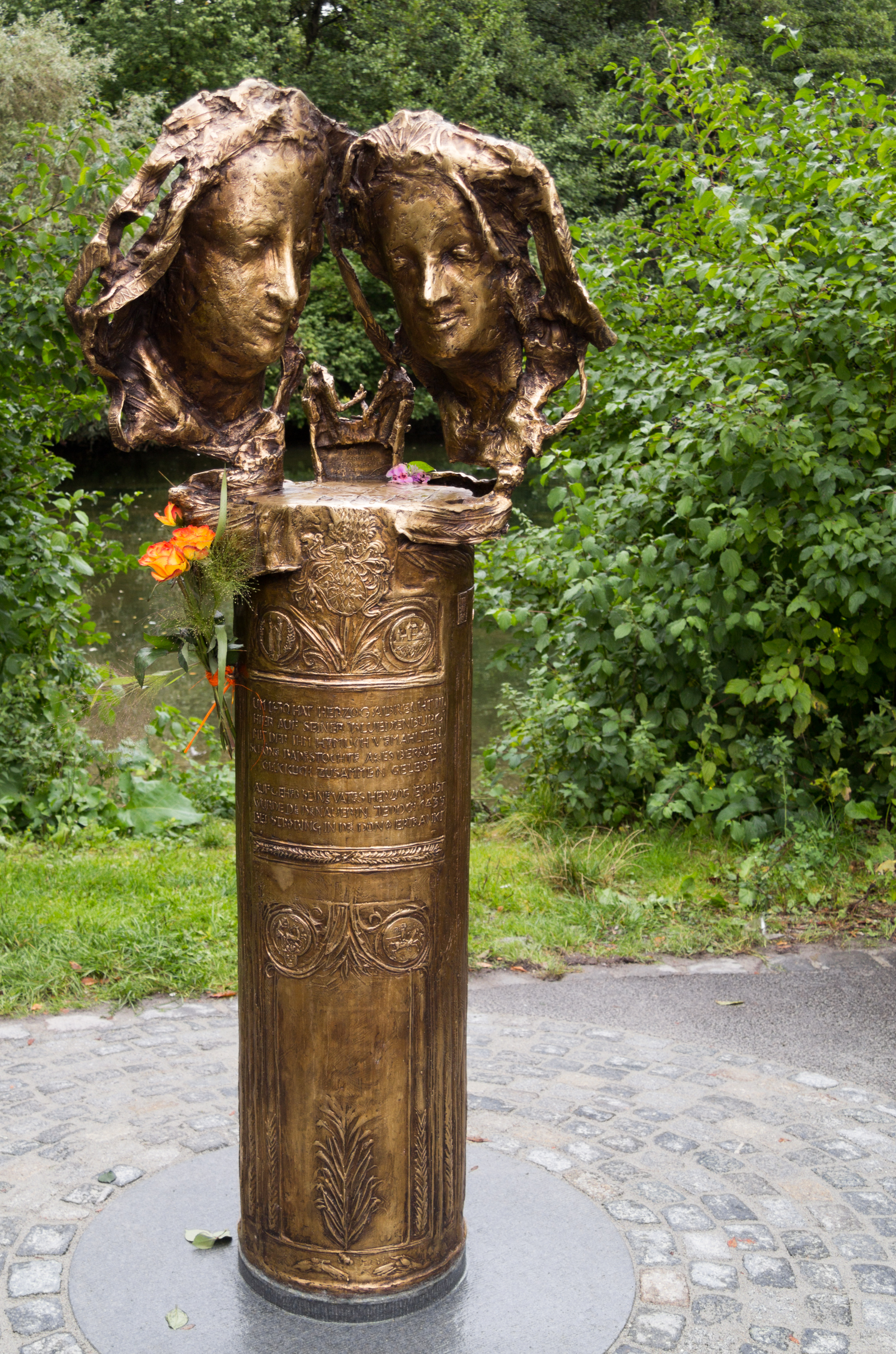 Sculpture of Agnes Bernauer with duke Albrecht III in Munich at the castle of Blutenburg.